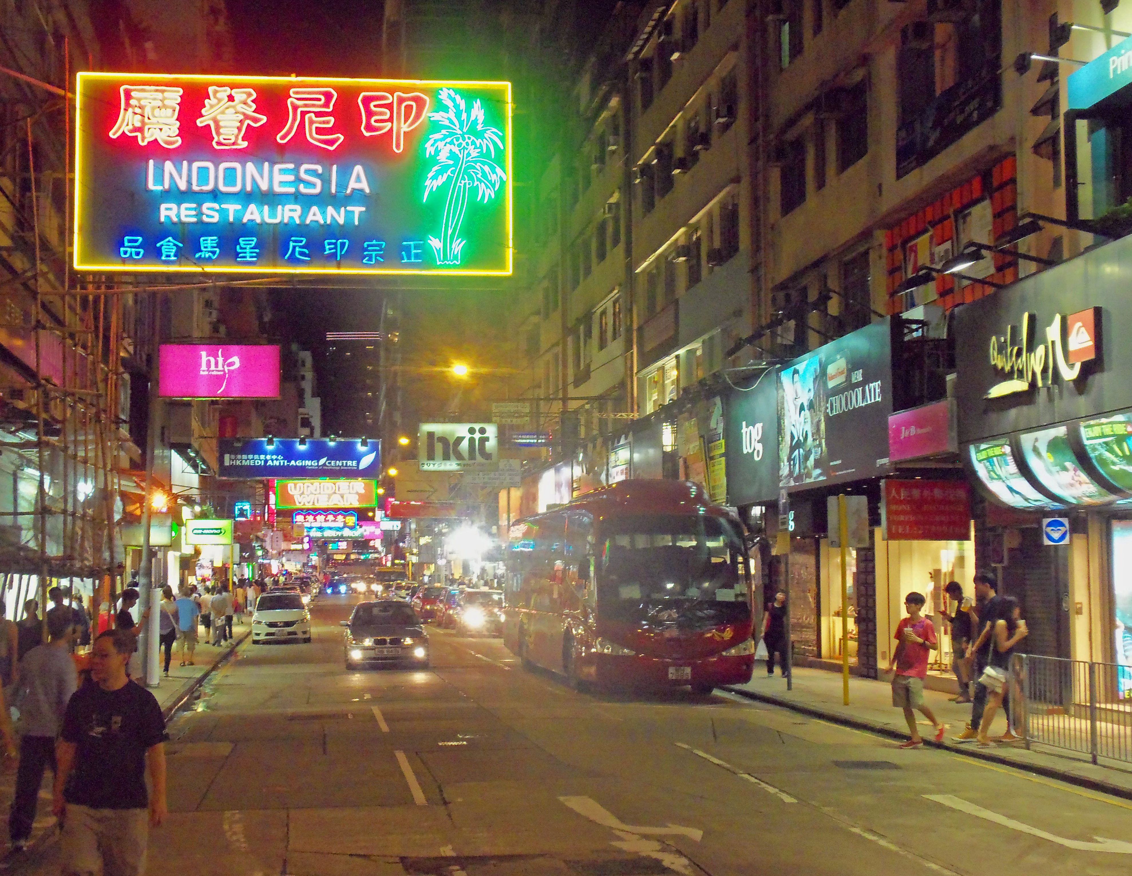 Looking west down Granville Road from Chatham Road in Tsim Sha Tsui, KKowloon, Hong Kong, at night